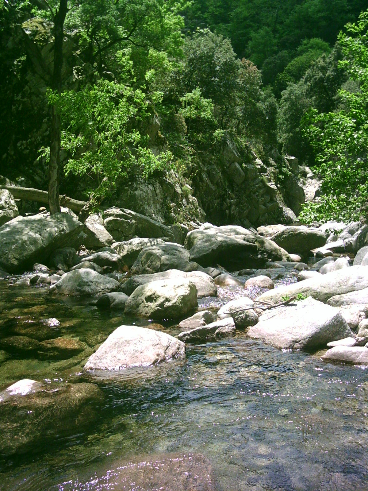 Bardou is a village in region Aquitaine, department of Dordogne, France